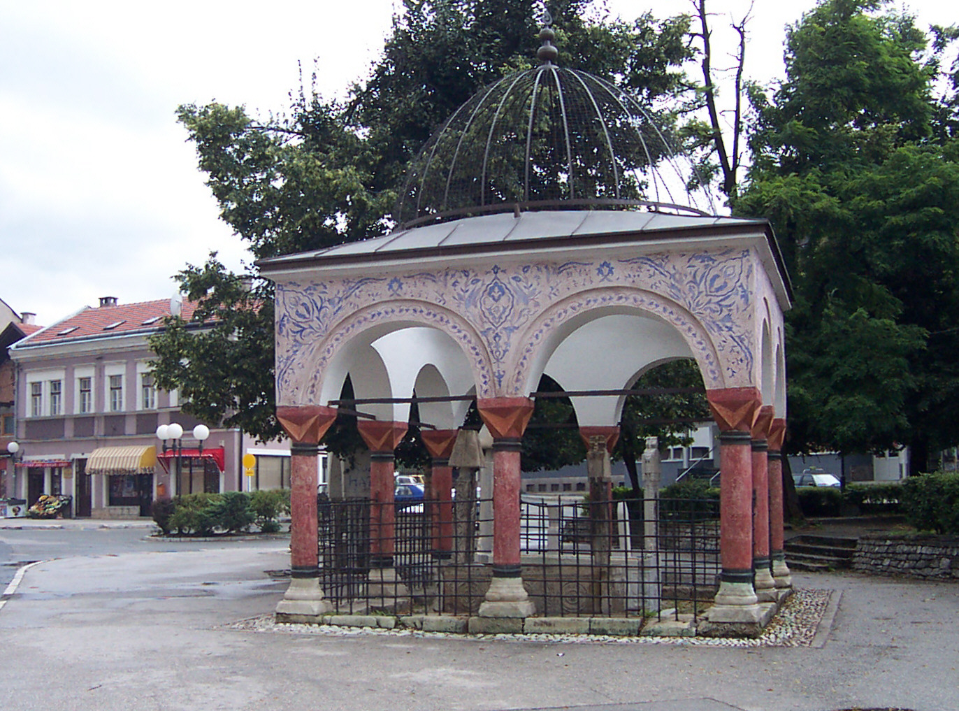 Turbe in Travnik, Bosnia. Cropped, slightly sharpened and rotated